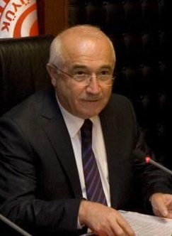 Cemil Çiçek